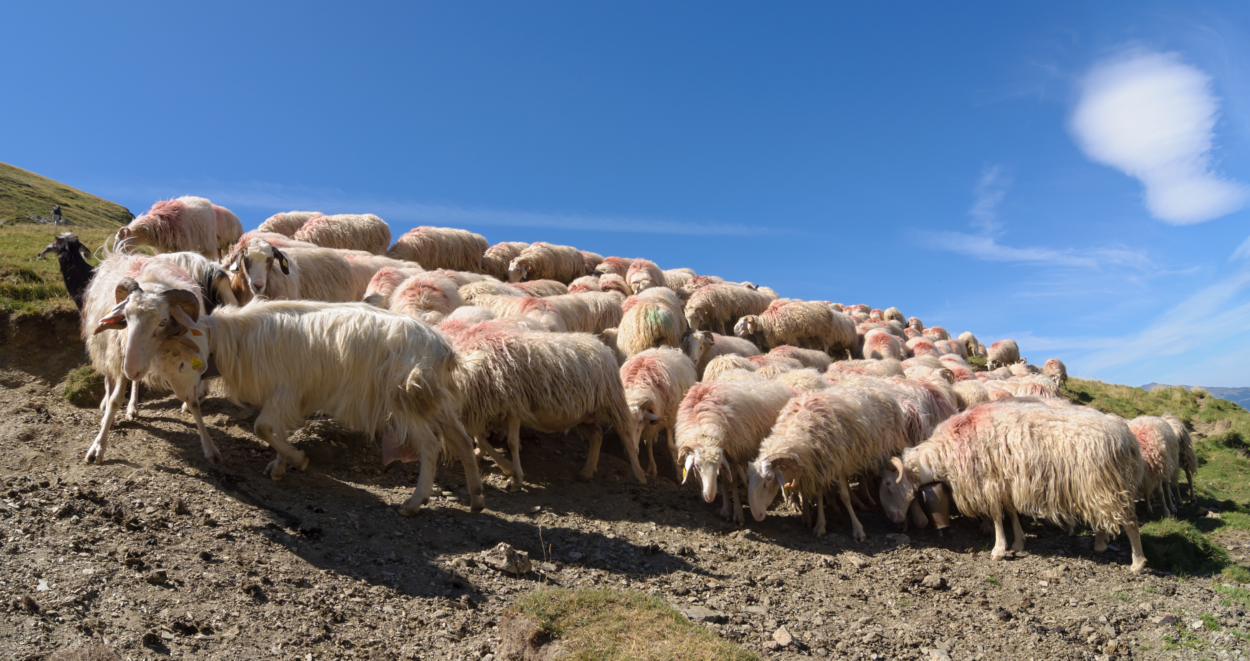 Flock of Basco-béarnaise sheep at Arbaze mountain pass (col d'Arbaze), Pyrénées-Atlantiques, France.